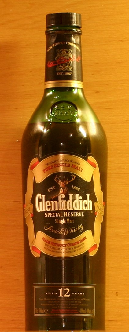 Glenfiddich Special Reserve Single Malt Whisky aged 12 years